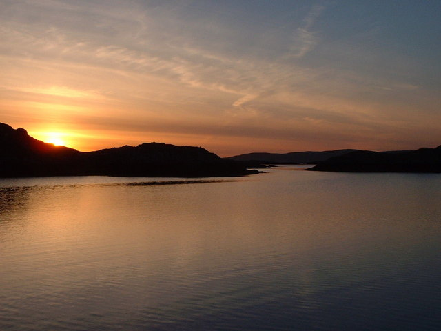 Natural sheltered harbour, Gighay, Outer Hebrides of Scotland. This perfectly sheltered anchorage provided a perfect situation with no light pollution to observe the long-awaited gathering of the five naked-eye planets on the nights of May 4-5-6 in the western evening sky. In a single glance you could see all five planets, a feat not possible again for decades.